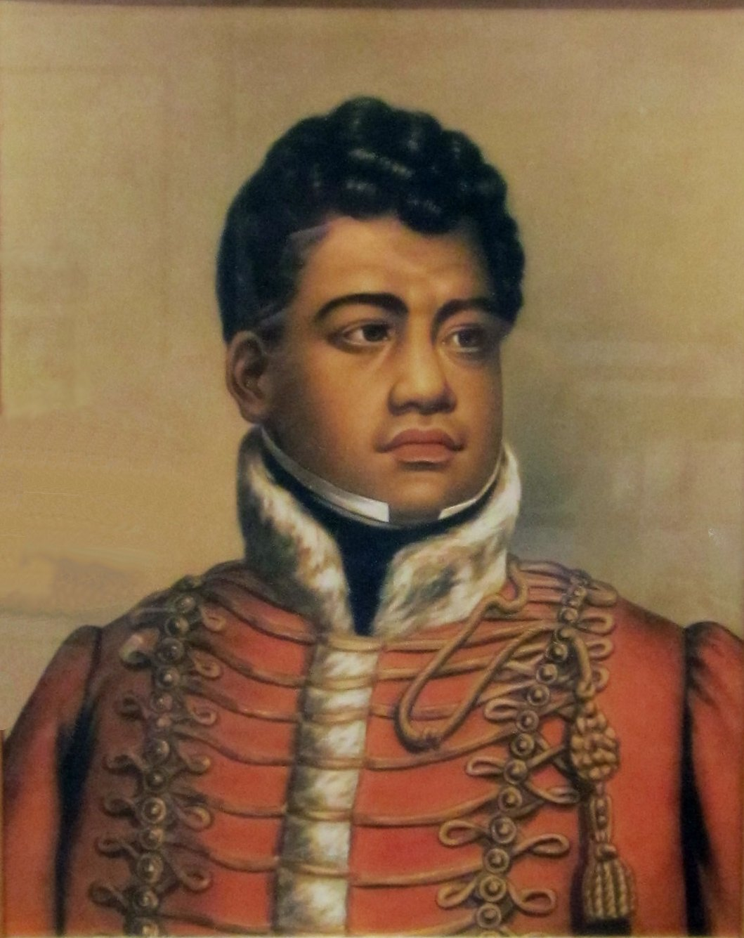 Portrait of King Kamehameha II, Bishop Museum, unknown artist